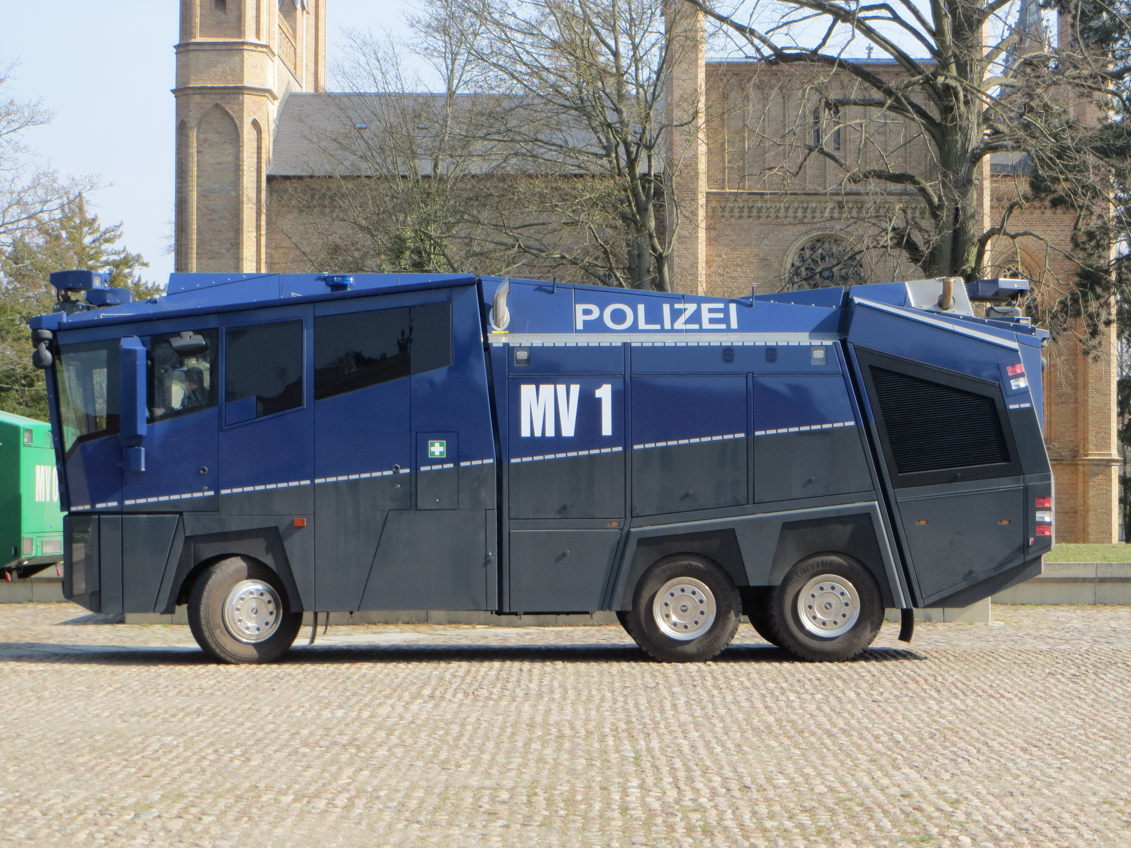 Wasserwerfer MV1 in Neustrelitz 2014